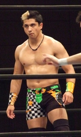 Professional wrestler TJP at a New Japan Pro Wrestling event.